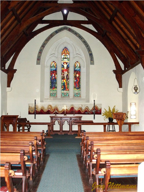 The church was damaged at the September 2010 Canterbury earthquake. The stained glass windows fell off and the surrounding wall developed bad cracks.